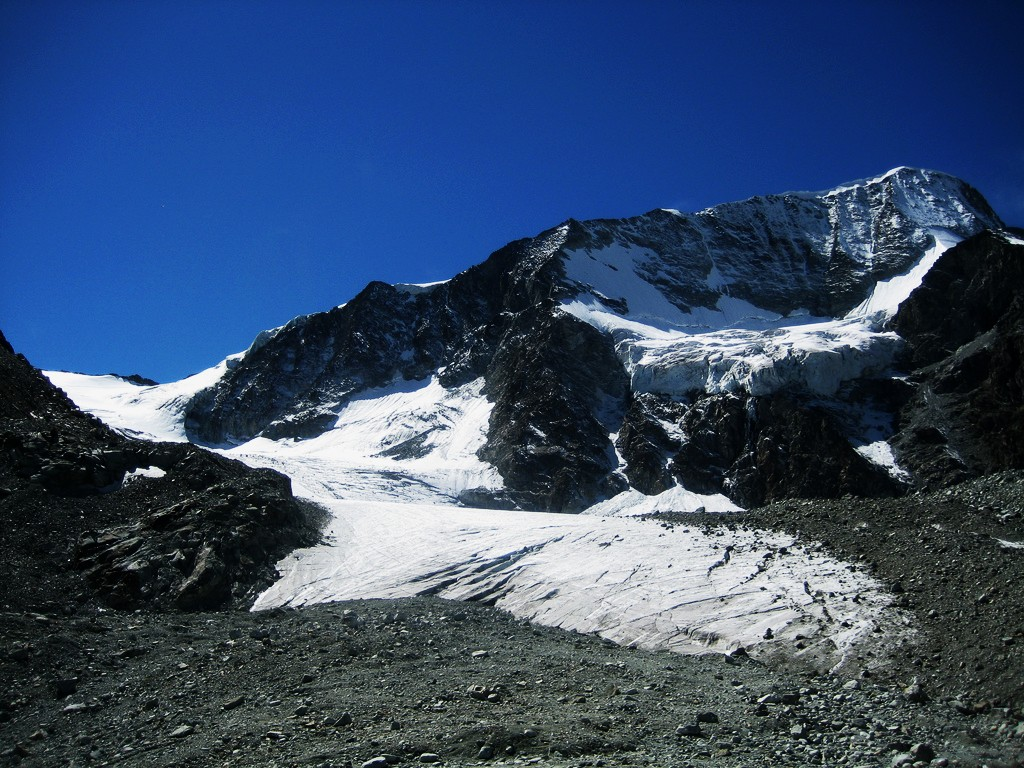 Pigne d'Arolla from north